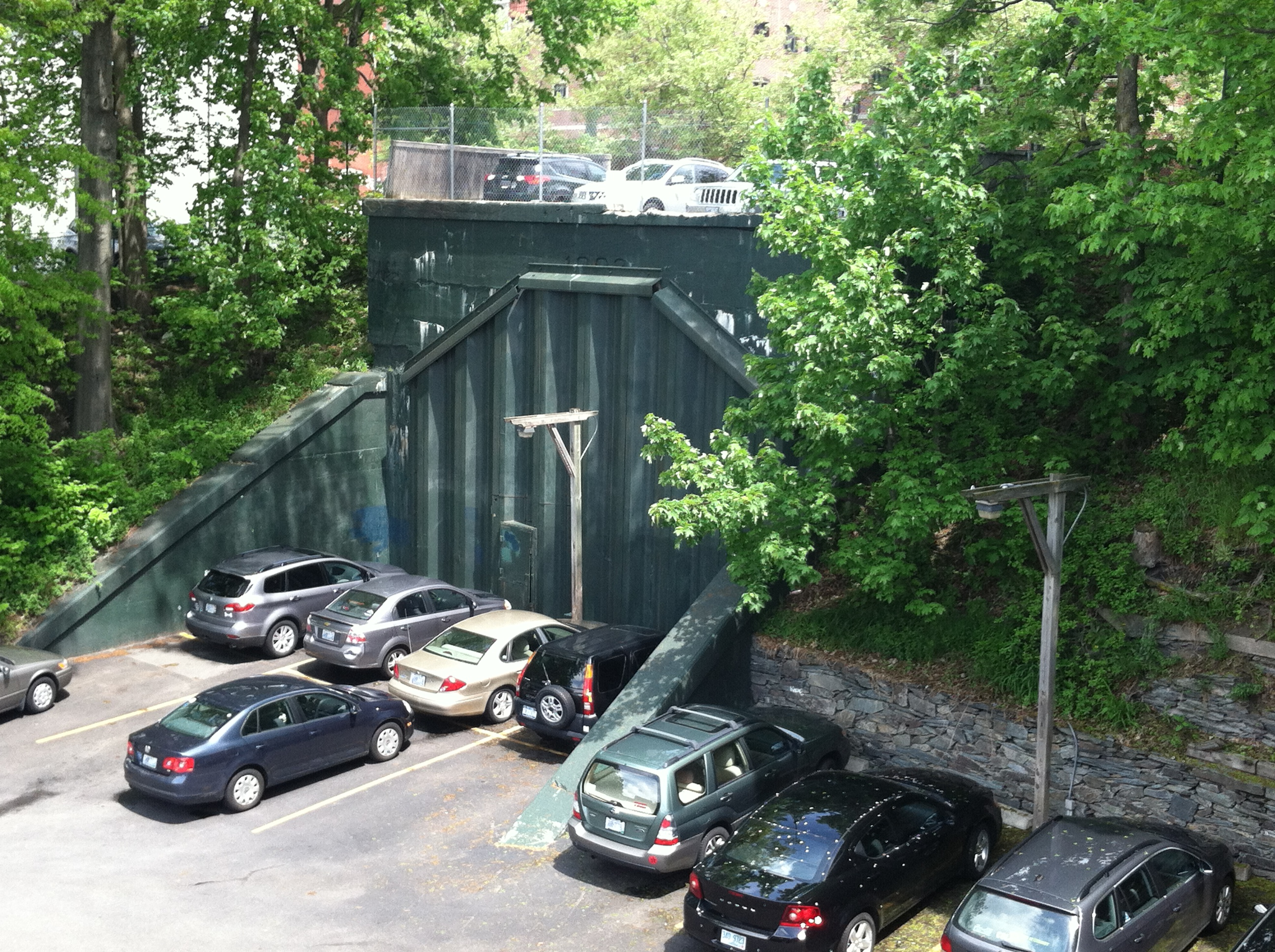 West Portal of the East Side Railroad Tunnel in Providence, Rhode Island, USA